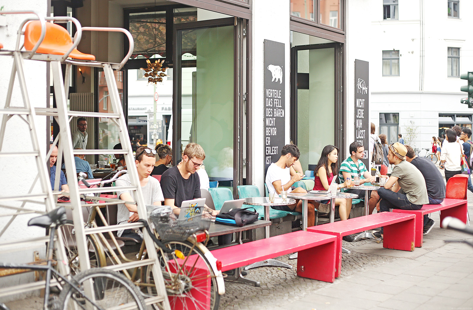 Students at the St. Oberholz café in Berlin Mitte